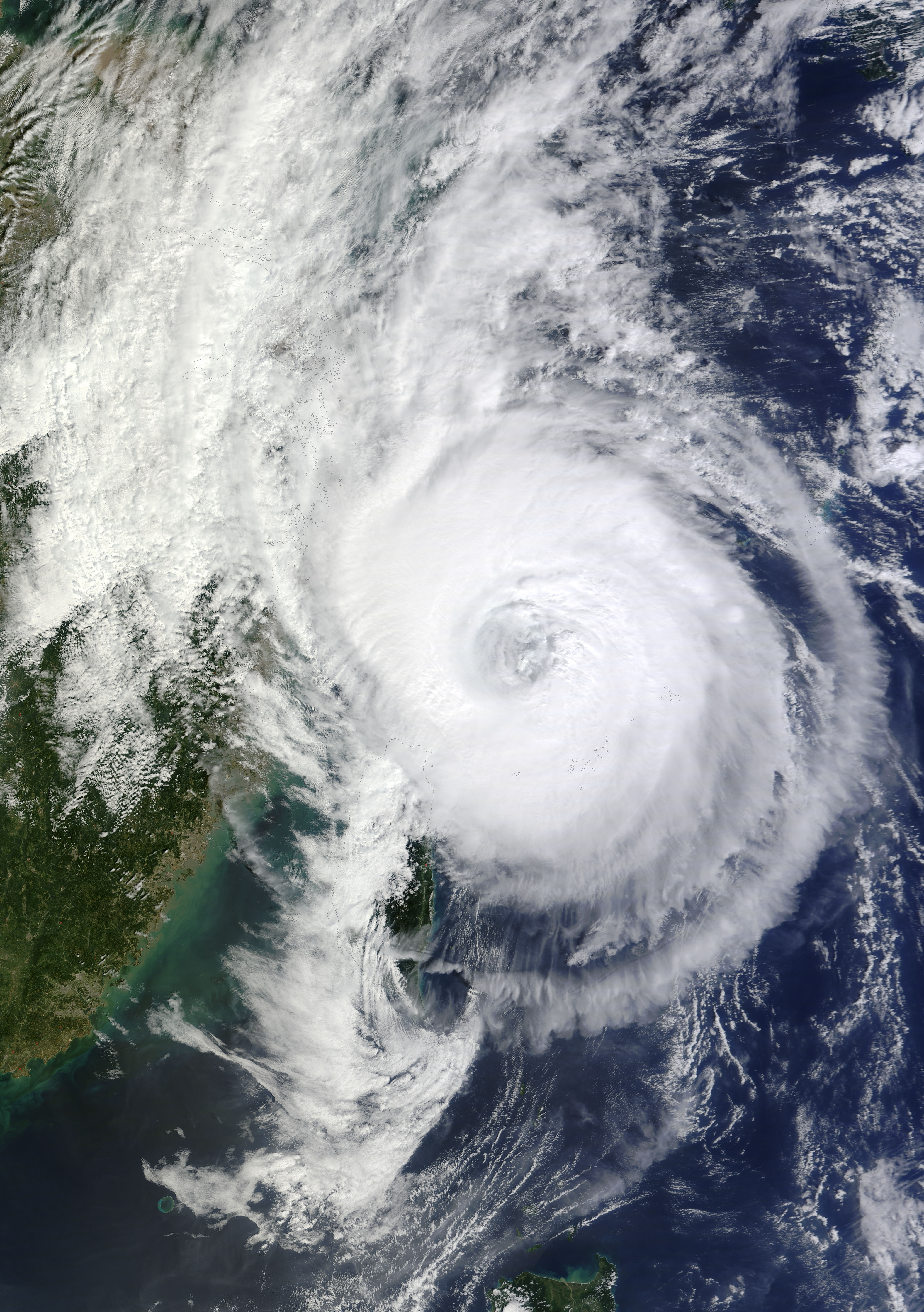 Typhoon Fitow nearing landfall over Eastern China in the East China Sea on October 6,2013.